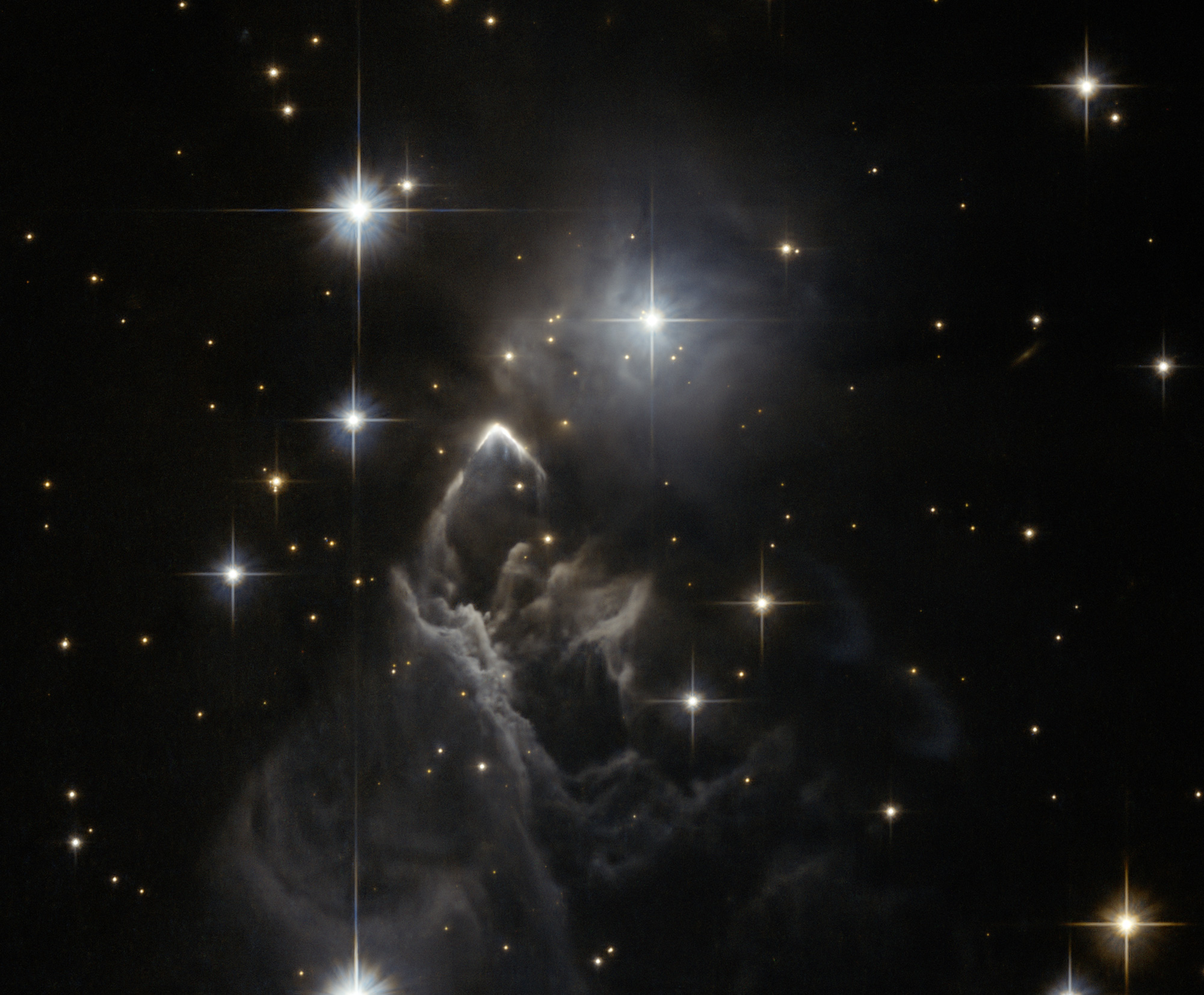 The little-known nebula IRAS 05437+2502 billows out among the bright stars and dark dust clouds that surround it in this striking image from the Hubble Space Telescope. It is located in the constellation of Taurus (the Bull), close to the central plane of our Milky Way galaxy. Unlike many of Hubble’s targets, this object has not been studied in detail and its exact nature is unclear. At first glance it appears to be a small, rather isolated, region of star formation and one might assume that the effects of fierce ultraviolet radiation from bright young stars probably were the cause of the eye-catching shapes of the gas. However, the bright boomerang-shaped feature may tell a more dramatic tale. The interaction of a high velocity young star and the cloud of gas and dust may have created this unusually sharp-edged bright arc. Such a reckless star would have been ejected from the distant young cluster where it was born and would travel at 200 000 km/hour or more through the nebula.